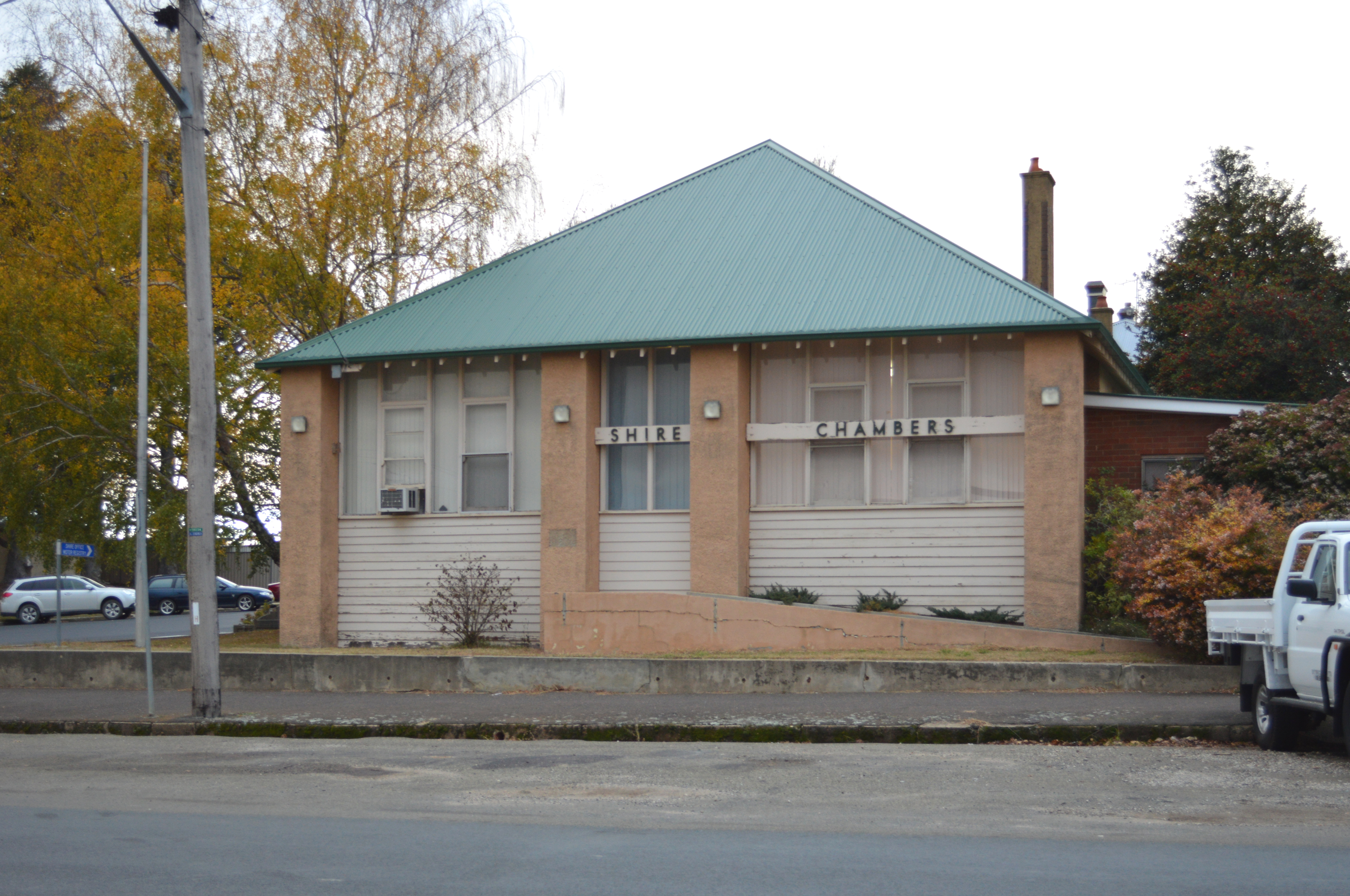 Offices of the former Crookwell Shire Council, now home to the Upper Lachlan Shire Council at Crookwell, New South Wales